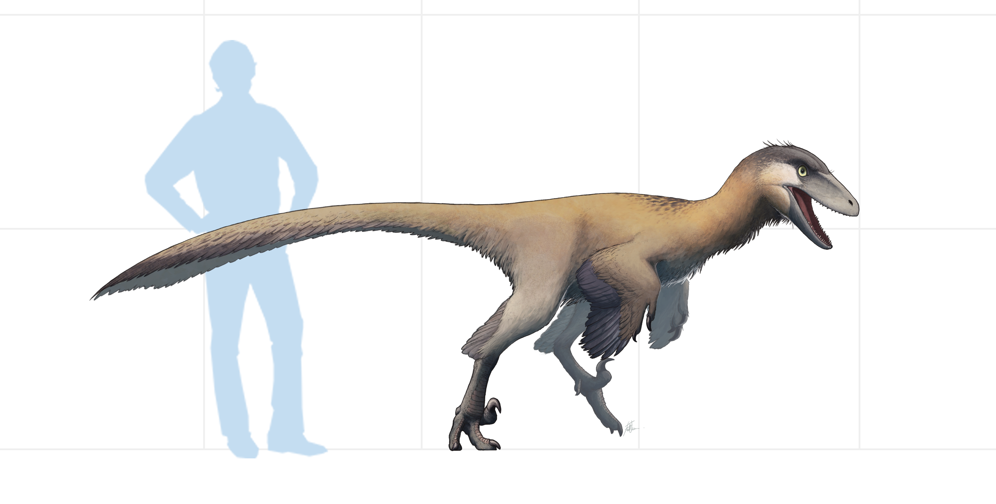 Life reconstruction of Latenivenatrix